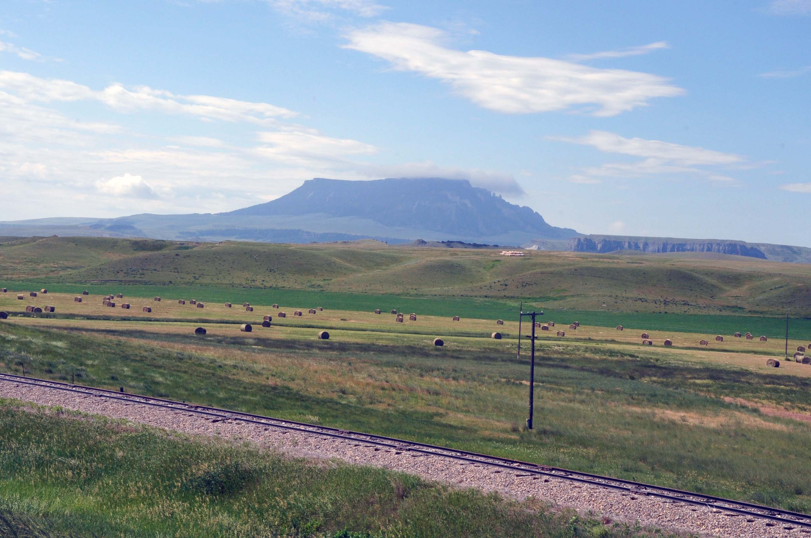 CONSIDERED ONE OF THE BEST EXAMPLES OF BANDED MAGMATIC ROCK IN THE UNITED STATES. SITE VIEWED FROM ROUTE 80